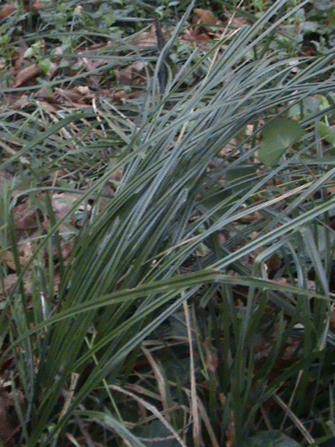 Santa barbara sedge (Carex barbarae).